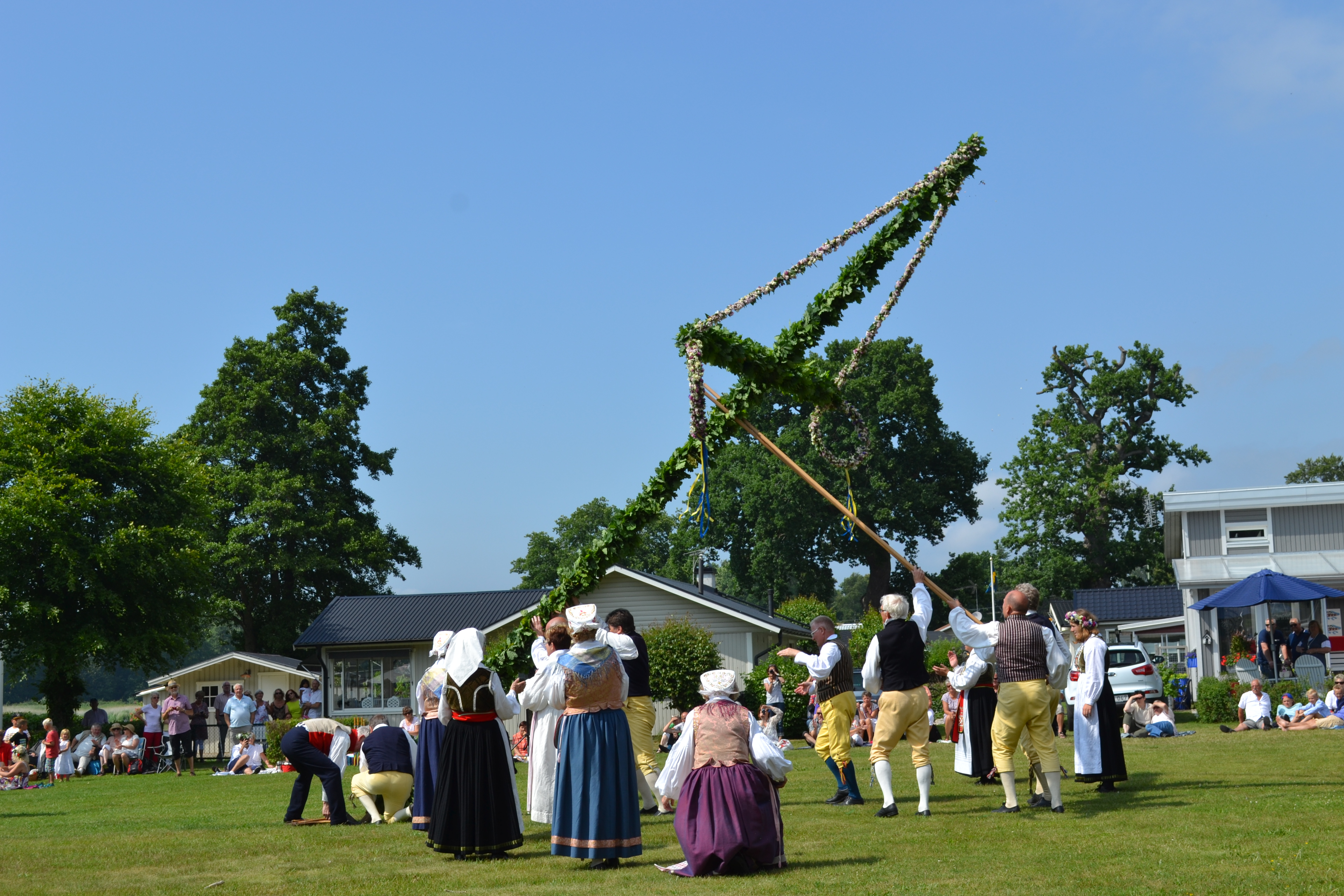 Serie of photos of the erection of the Maypole